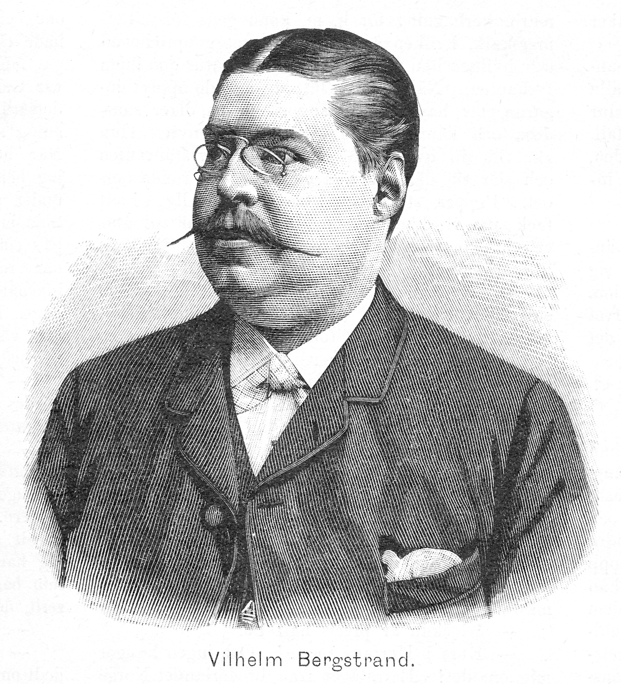 Vilhelm Bergstrand